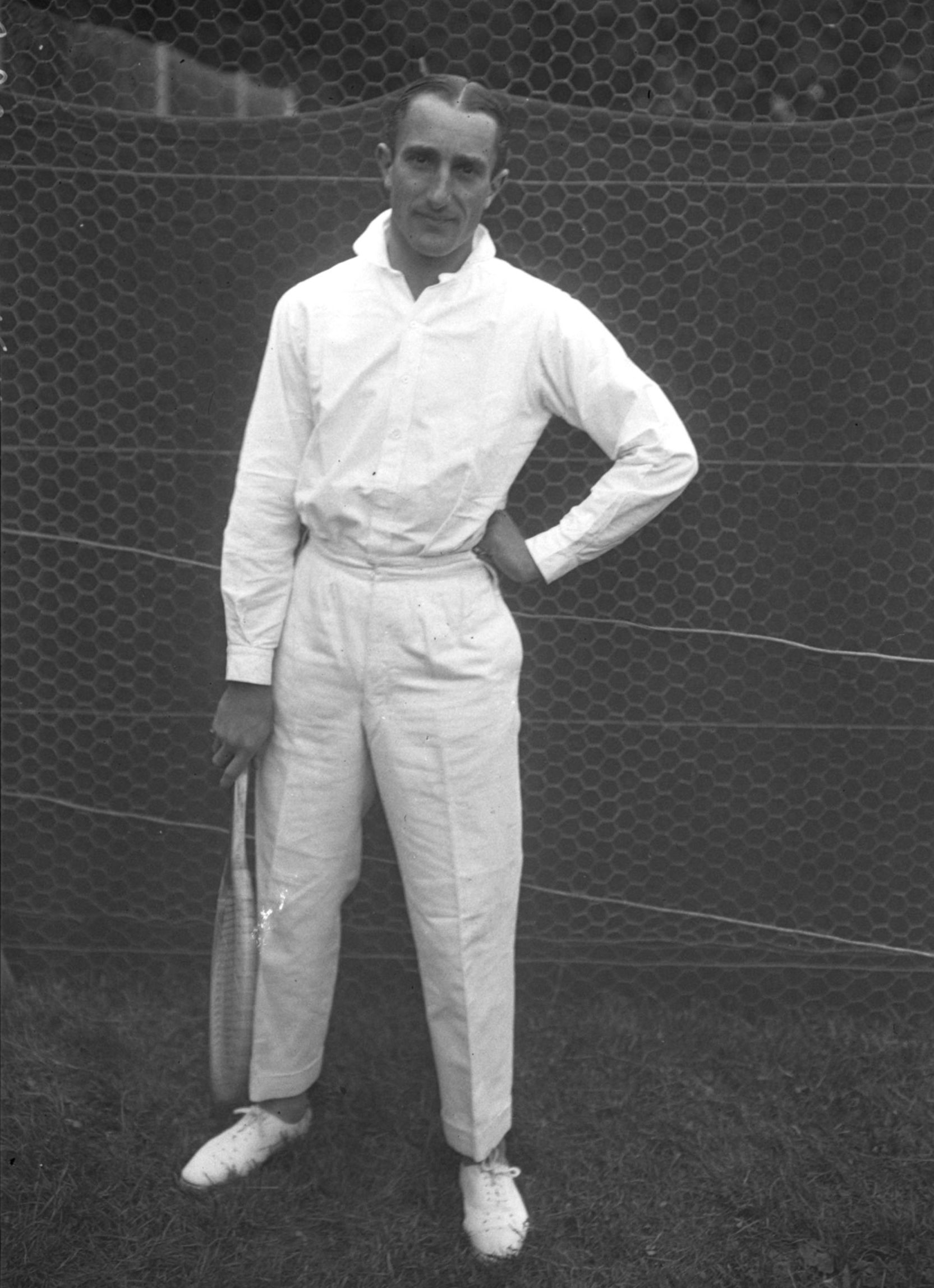 Friedrich Willhelm Rahe (1888-1949), German tennis player